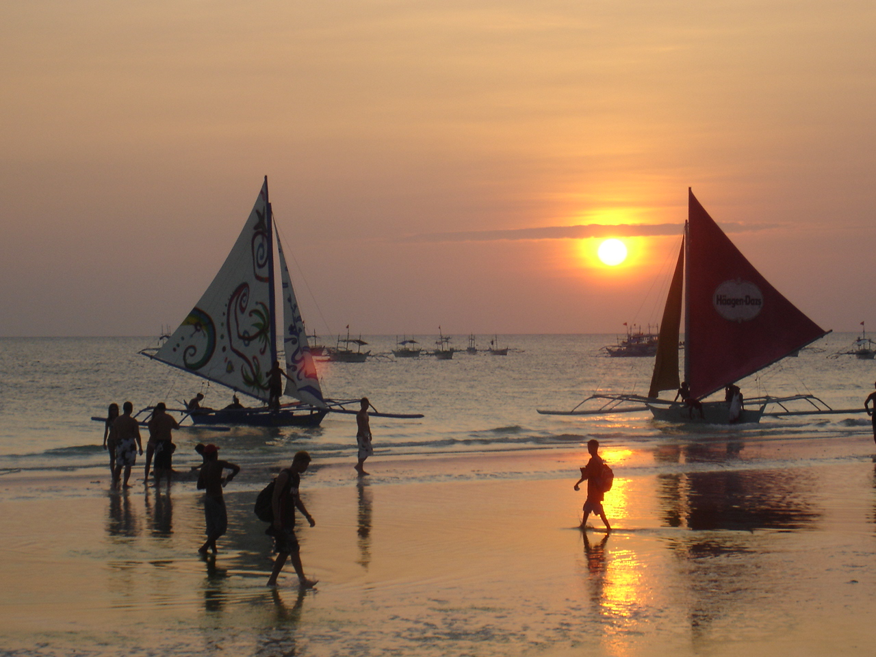 Visayan paraw with crab claw sails in the Philippines